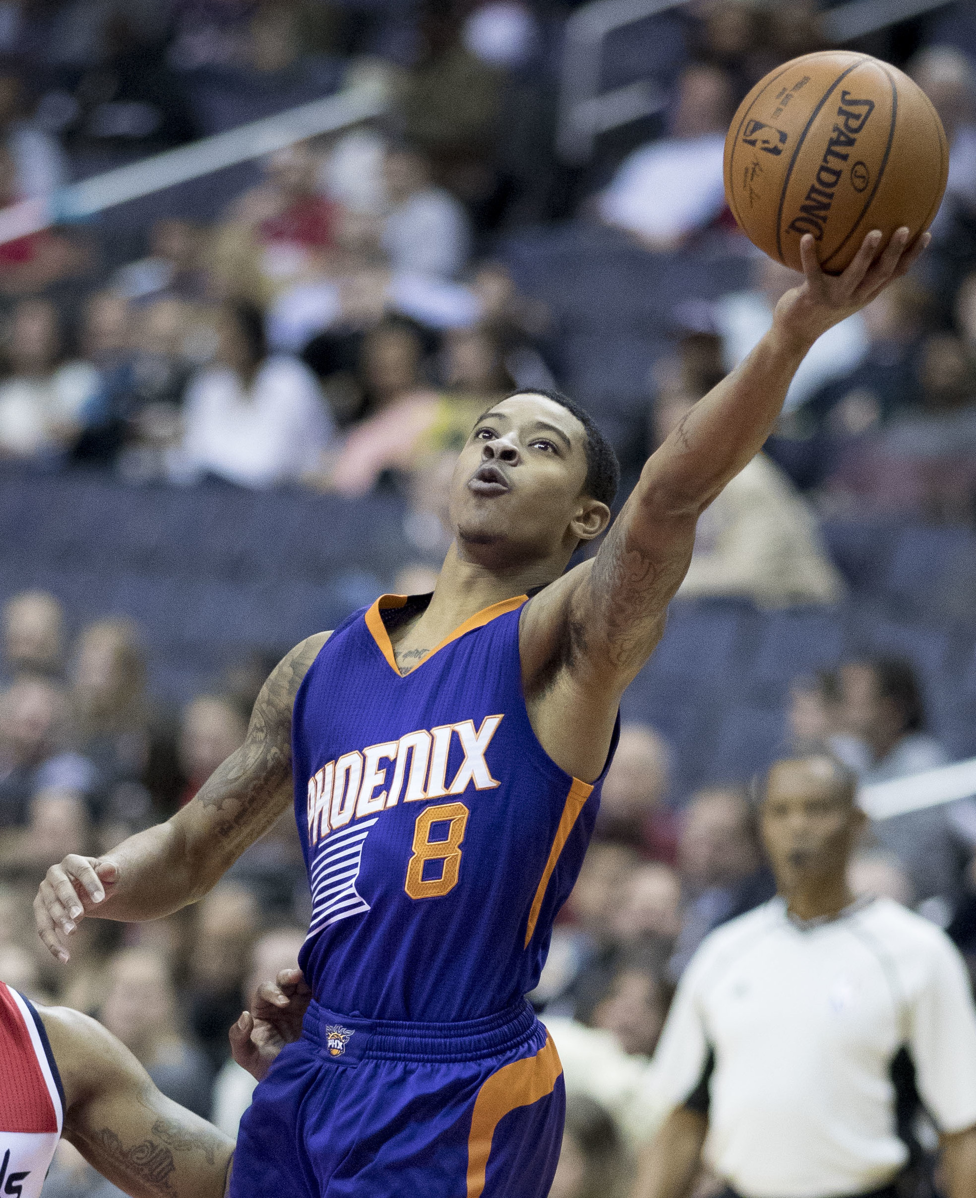 Suns at Wizards 11/21/16